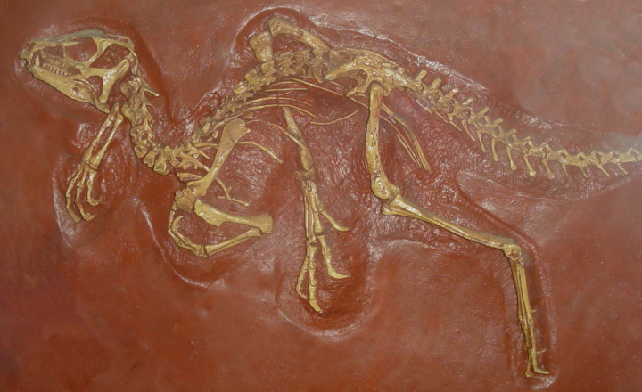 Cast of the type specimen of Heterodontosaurus tucki from South Africa, as displayed in the Valley Life Sciences Building of the University of California, Berkeley.